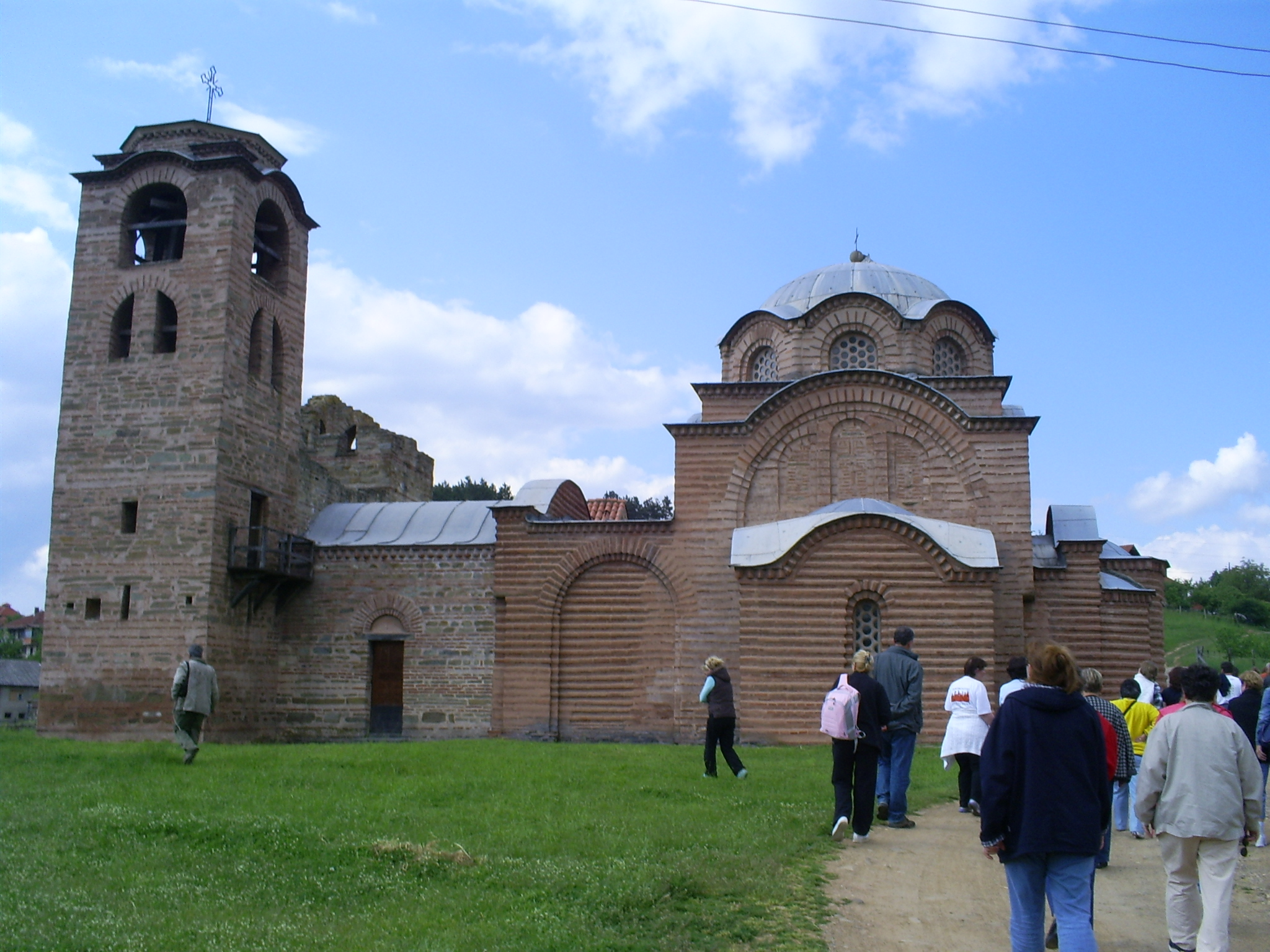 Saint Nicolas monastery, from middle of XII century, in Kuršumlija, Serbia.